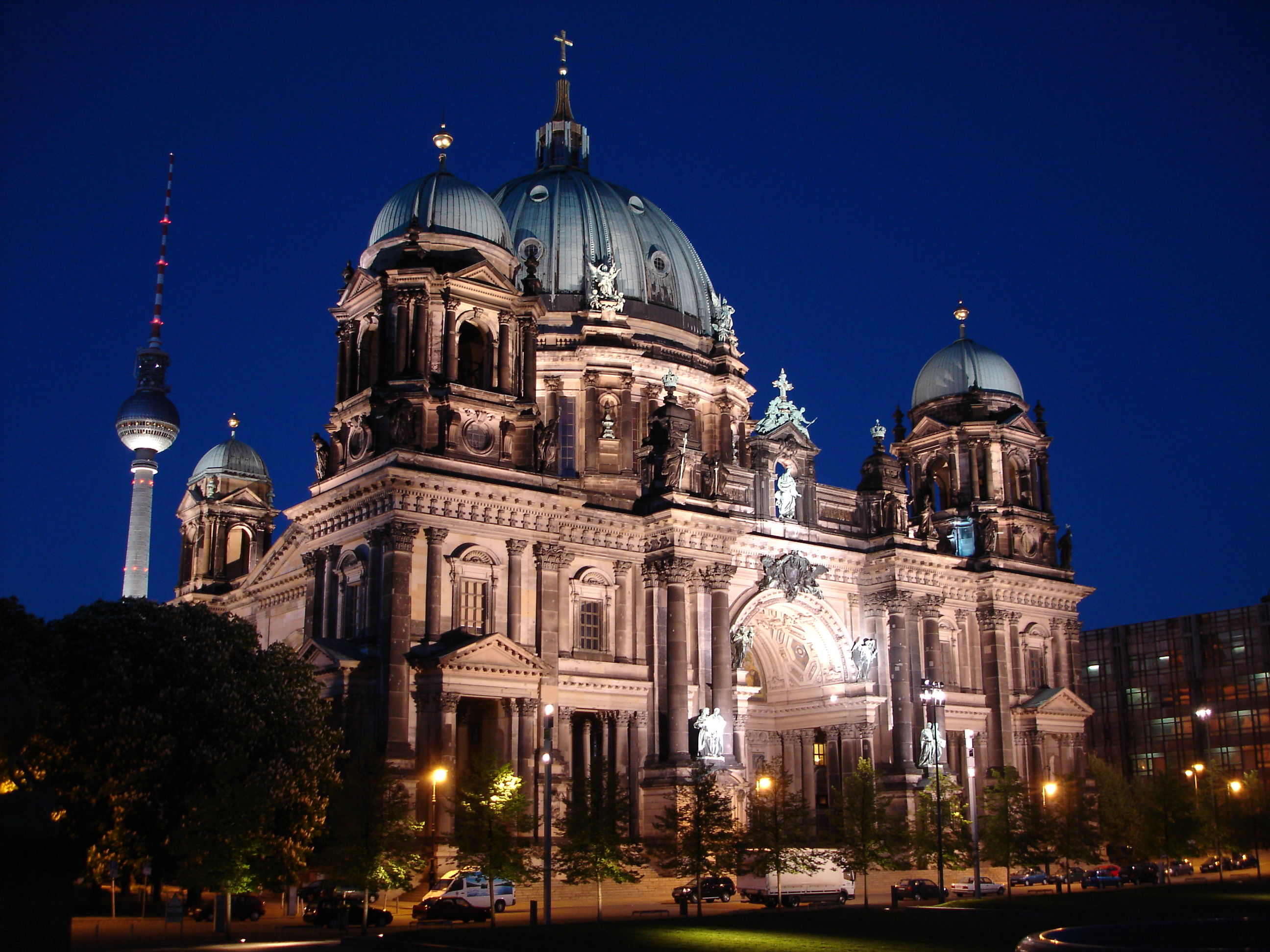 Berliner Dom with Berliner Fernsehturm in the background - photo taken at evening at the blue hour